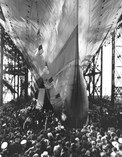 "May she also say with just pride: 'I have done the State some service.'" With these words, Mrs. Claude A. Swanson, wife of the Secretary of the Navy, launches USS Enterprise CV-6 on 3 October 1936.